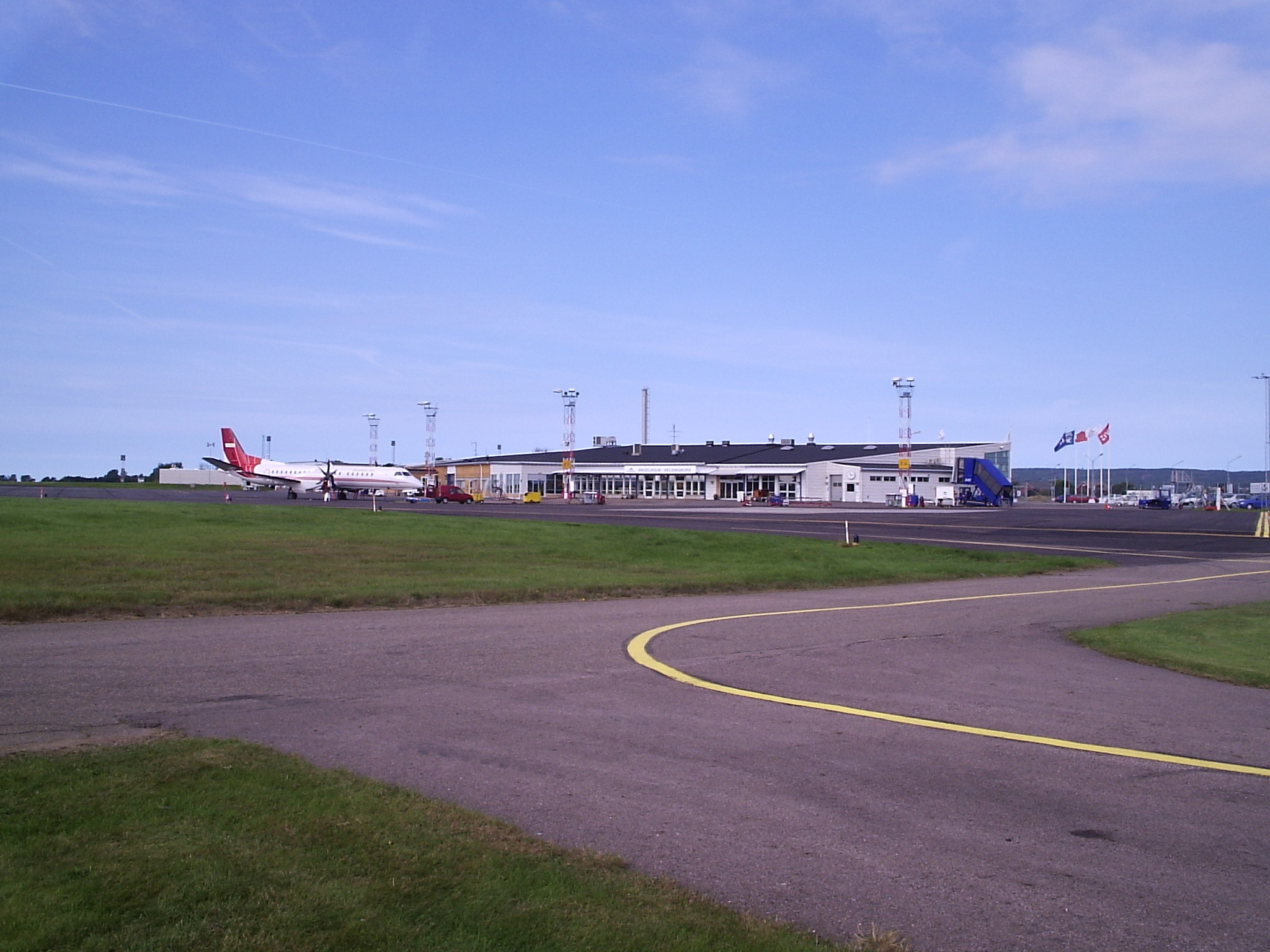 Ängelholm airport, Sweden seen from airside.